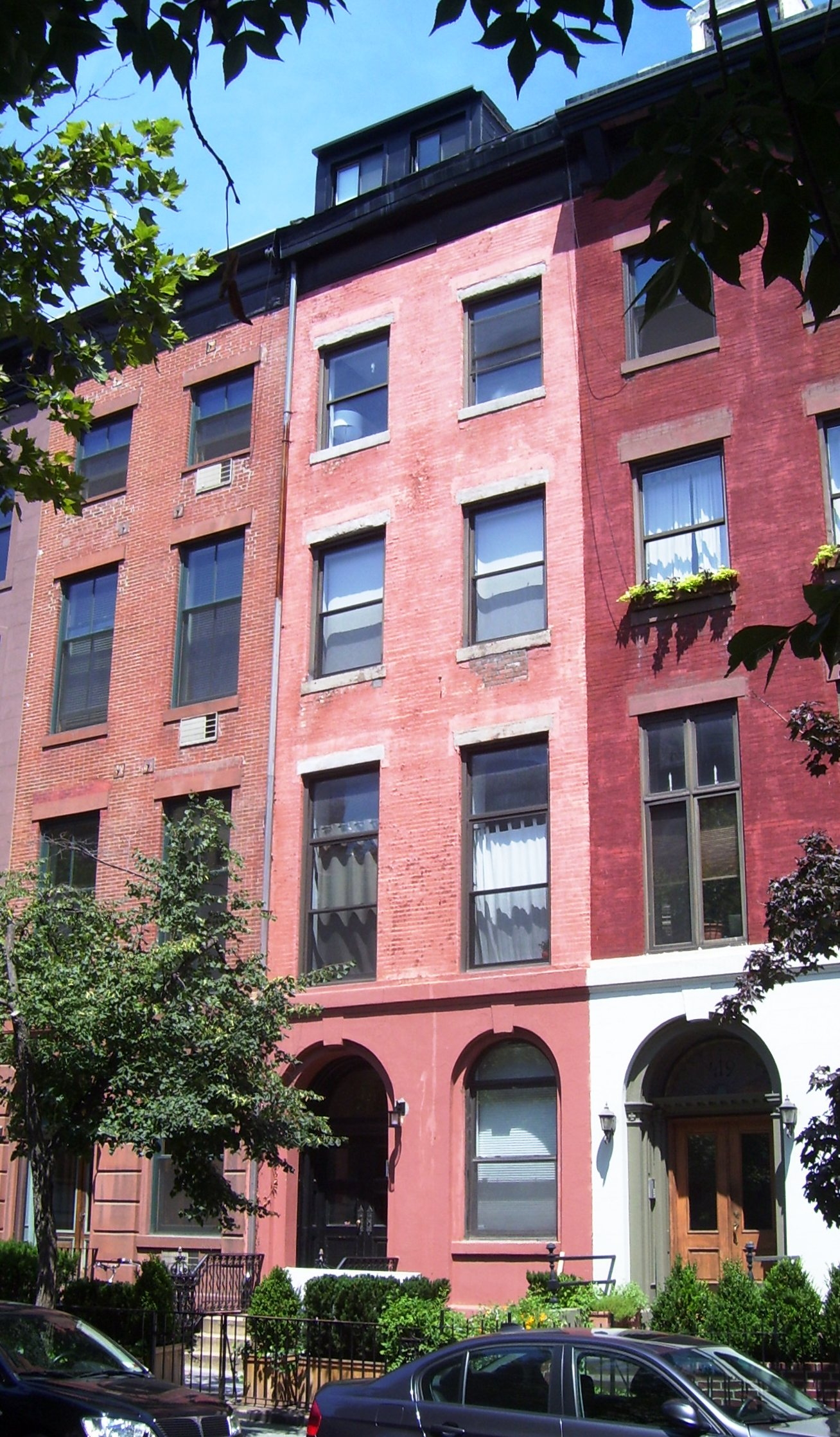 425 West 22nd Street between Ninth and Tenth Avenues in the Chelsea neighborhood of Manhattan, New York City was built c.1922. For many years it was "TornPage", the home of actors Rip Torn and Geraldine Page. (Sources: NYC GIS map and Movie Lover's Guide to NY (1988))